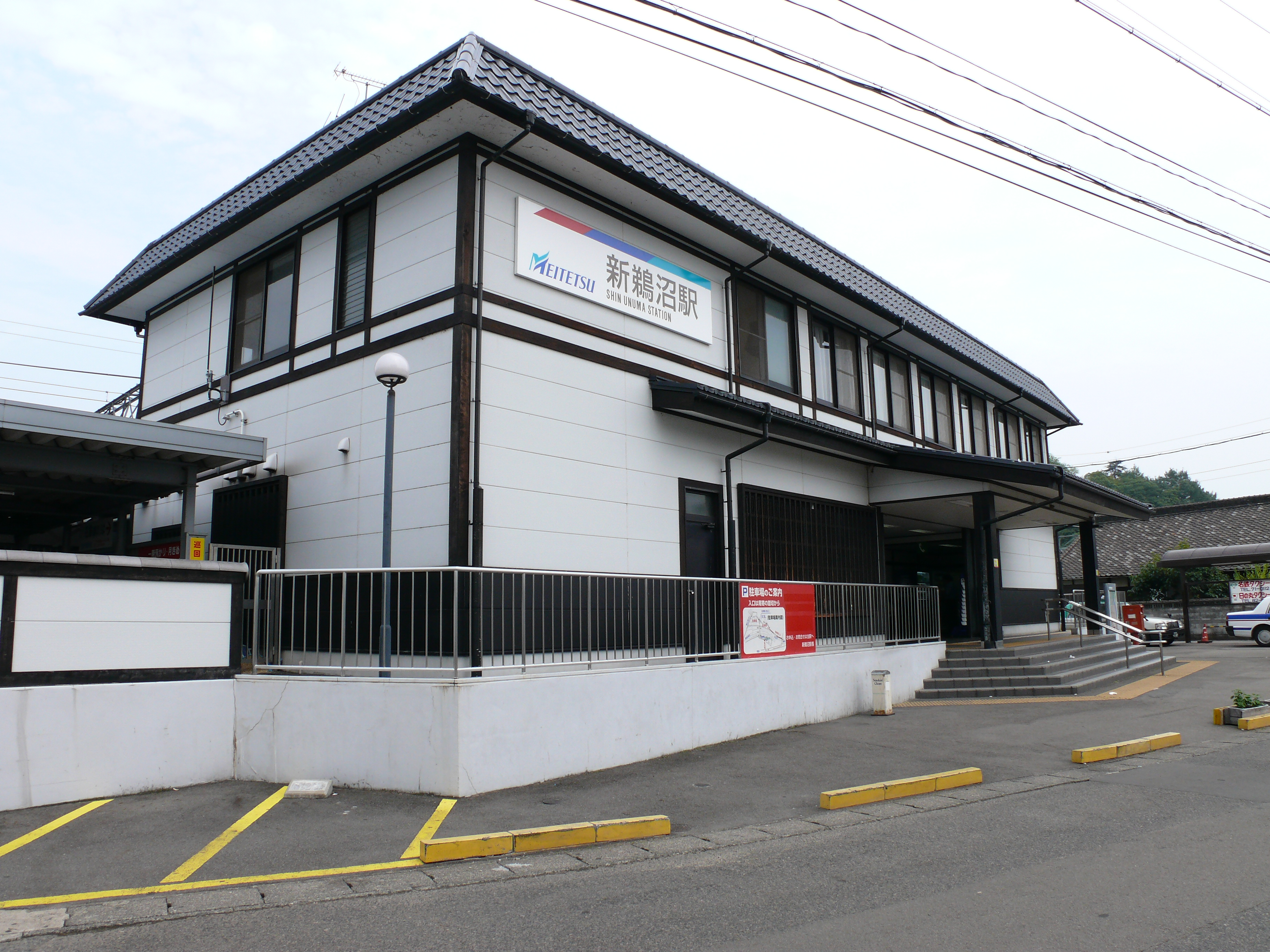 Meitetsu Shin-Ununma Station.